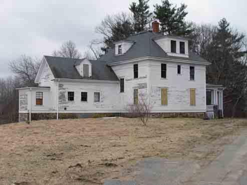 Main house of the former Richman-Margeson Estate, now part of the Great Bay National Wildlife Refuge, Newington, New Hampshire.